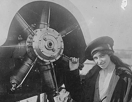 Bain News Service,, publisher. Kath. Stinson in Japan [1917 Sept. 3] (date created or published later by Bain) 1 negative : glass ; 5 x 7 in. or smaller. Notes: Title and date from unverified data provided by the Bain News Service on the negative. Photo shows aviatrix Katherine Stinson standing by an airplane. Forms part of: George Grantham Bain Collection (Library of Congress). Subjects: Jap. Format: Glass negatives. Repository: Library of Congress, Prints and Photographs Division, Washington, D.C. 20540 USA, General information about the Bain Collection is available at Higher resolution image is available (Persistent URL): Call Number: LC-B2- 4142-5